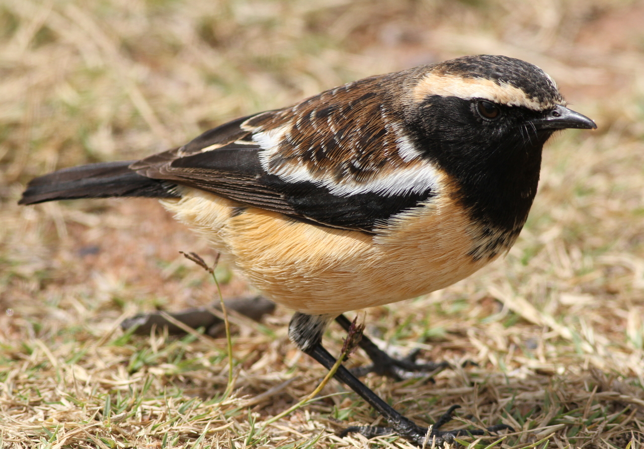 Buff-streaked Chat, Buff-streaked Bushchat, Campicoloides bifasciatus (male) at Marakele National Park, South Africa